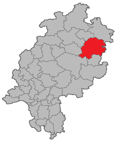 Map of the district court Bad Hersfeld in Hesse